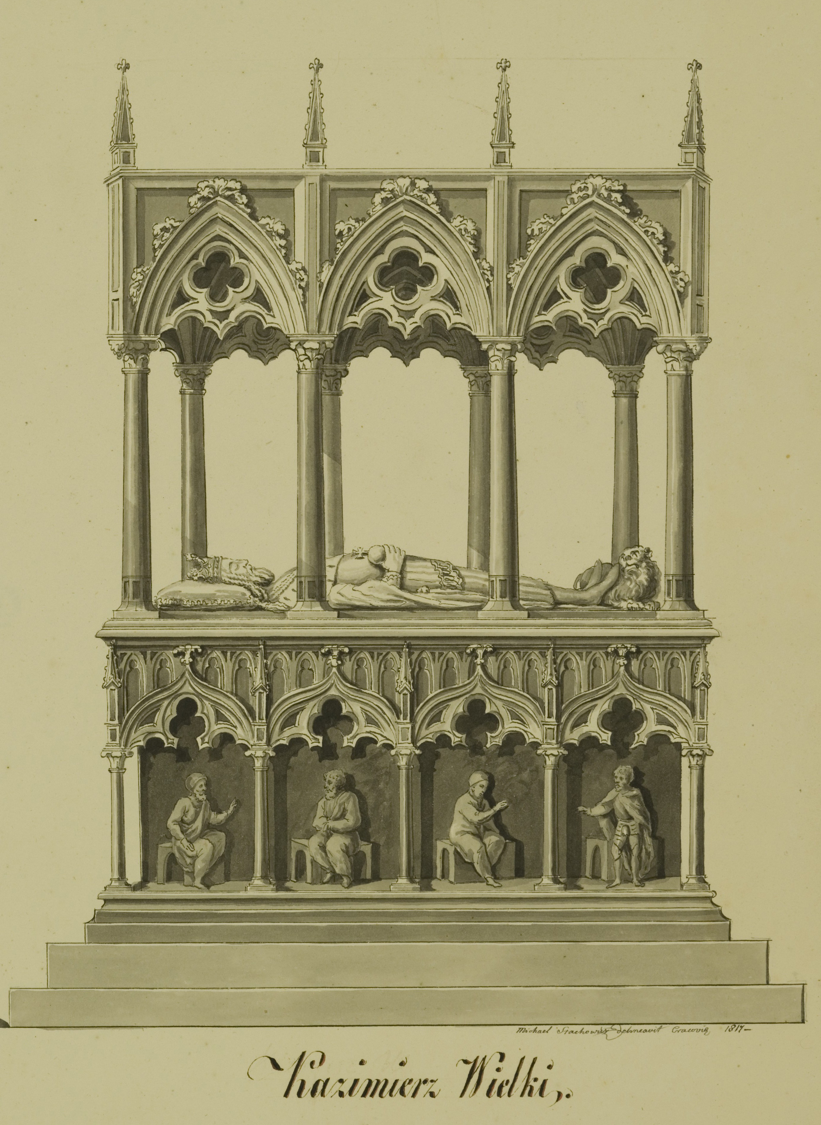 Tomb of Casimir III the Great, Wawel cathedral. Drawn by Michał Stachowicz.